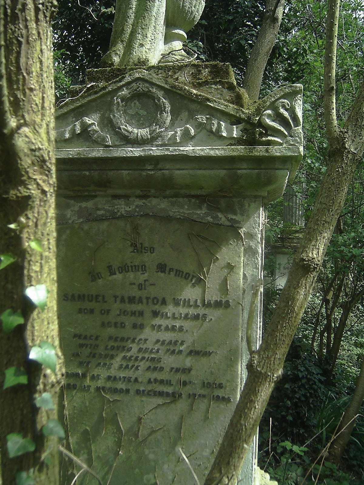 My own photograph taken April 2006 at Abney Park John Williams (missionary) family tomb in Abney Park Cemetery.